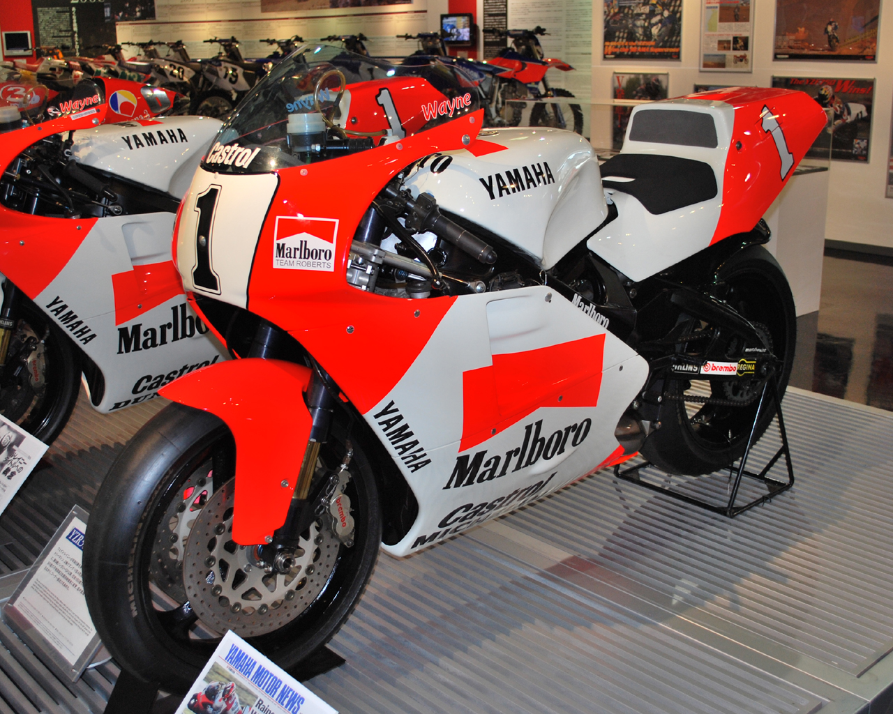 Yamaha YZR500 (1992 OWE0, Wayne Rainey)